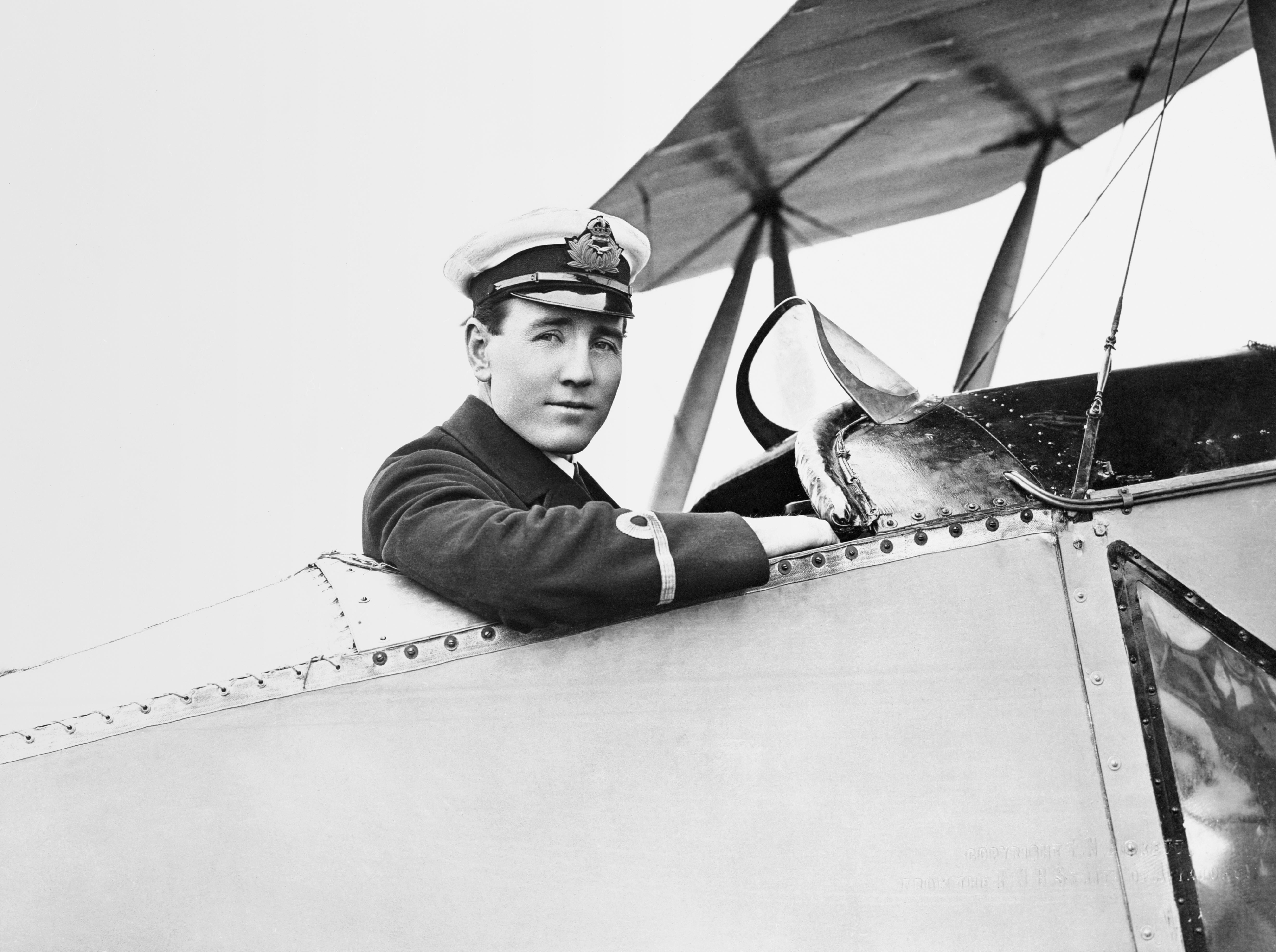 France. Portrait of Sub Lieutenant Roderick Stanley (Stan) Dallas, No 1 Squadron, Royal Naval Air Service (RNAS) in the cock-pit of his aircraft. Born in Queensland, Dallas sailed to England at the start of the First World War, seeking flight training and after being accepted into the RNAS, was commissioned as a Flight Sub Lieutenant, joining No 1 Squadron in December 1915. During his service on the Western Front, in 1916 and 1917, he proved himself as an exceptional pilot and on 14 June 1917 he was made Commanding Officer of his Squadron. In 1918 after the amalgamation of the two air services to form the Royal Air Force (RAF), he was transferred to 40 Squadron RAF and held the rank of Major. While on a reconnaissance operation, Dallas was struck with 3 bullets to his leg, after his safe return to base he was awarded the Distinguished Service Order (DSO) having already been awarded the Distinguished Service Cross (DSC) and Bar and the French award, the Croix de Guerre and Palm. Major Dallas was killed in action on 1 June 1918, aged 26, while engaged in combat with Fokker Triplanes over France and is buried at Pérnes British Cemetery, Pas de Calais, France. Major Dallas is officially credited with shooting down thirty nine enemy aircraft.